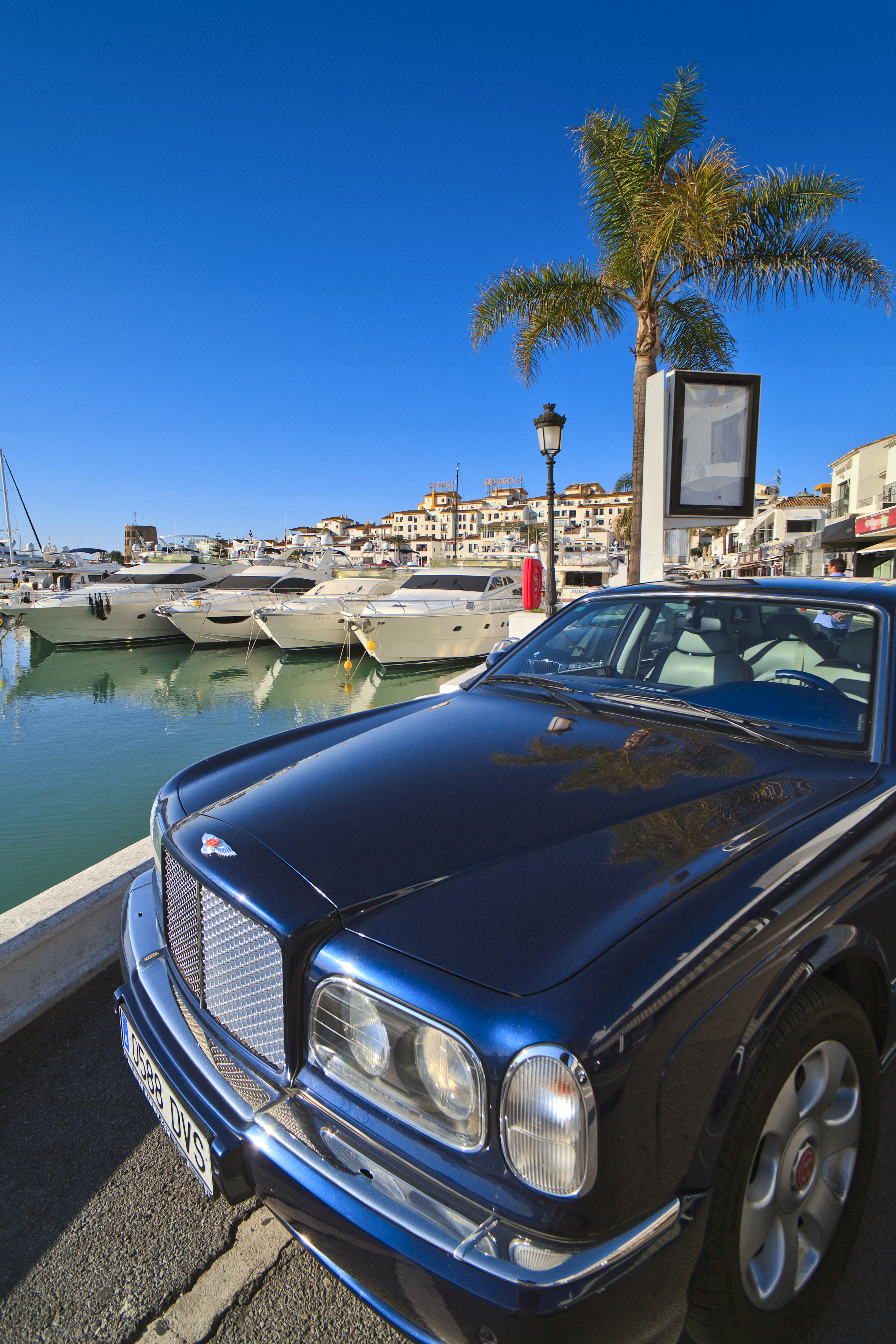 Puerto Banús, Marbella, Costa del Sol, Spain.